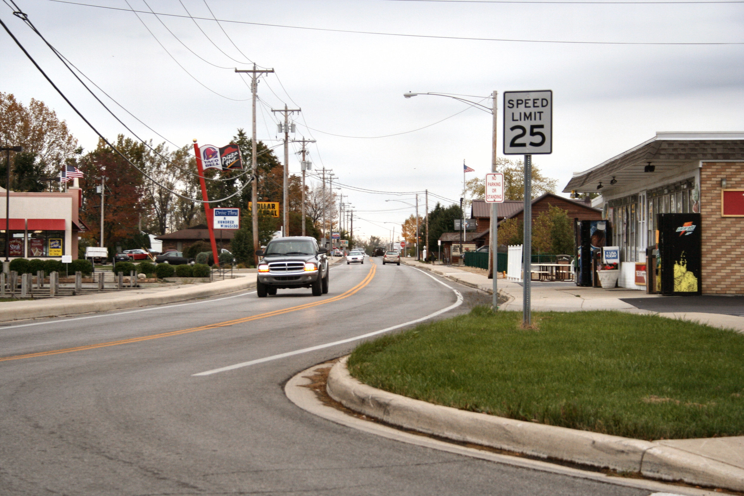 Main Street, Russells Point, Ohio. Photo shot by Derek Jensen (Tysto), 2005-October-20